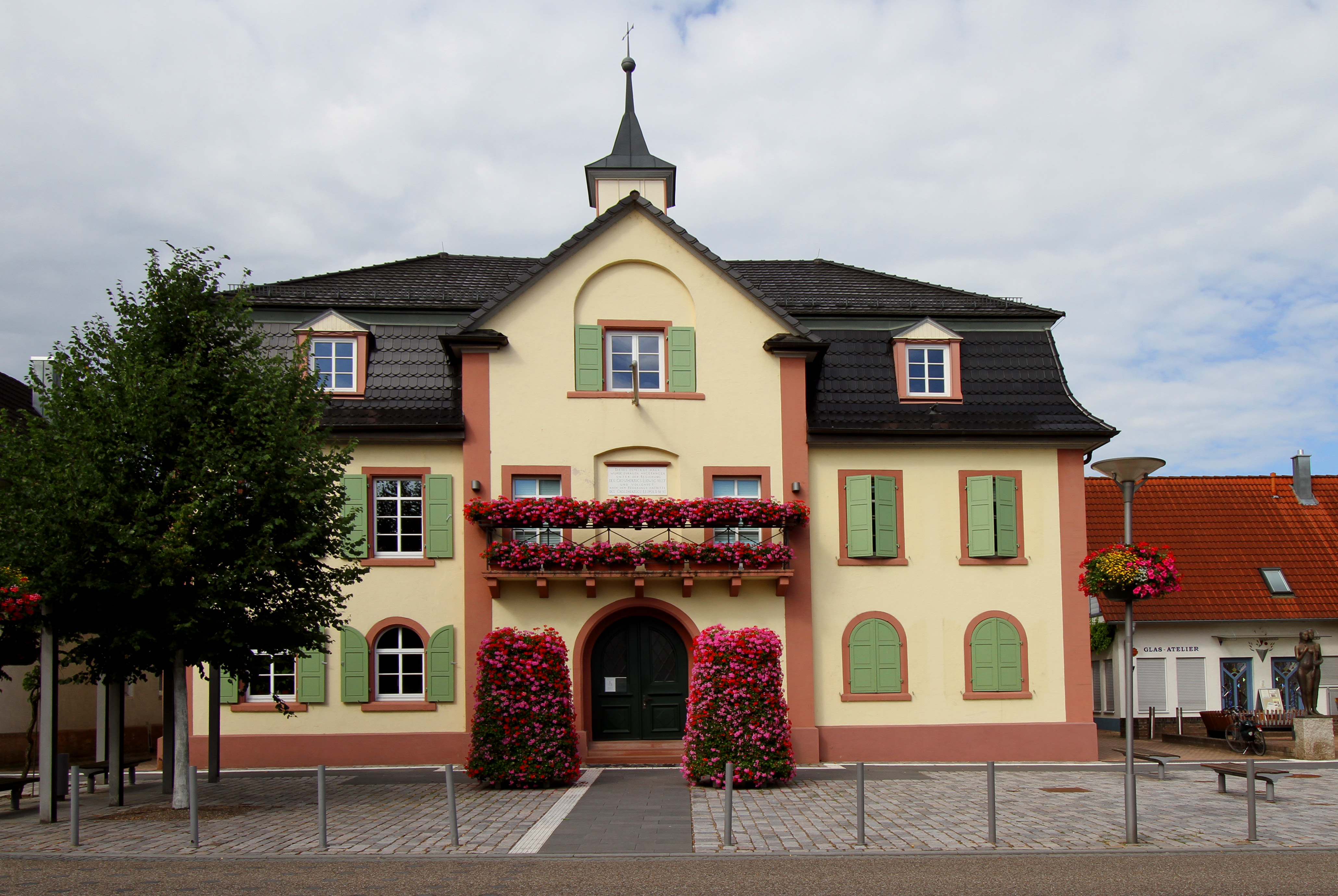 City hall in Muggensturm.